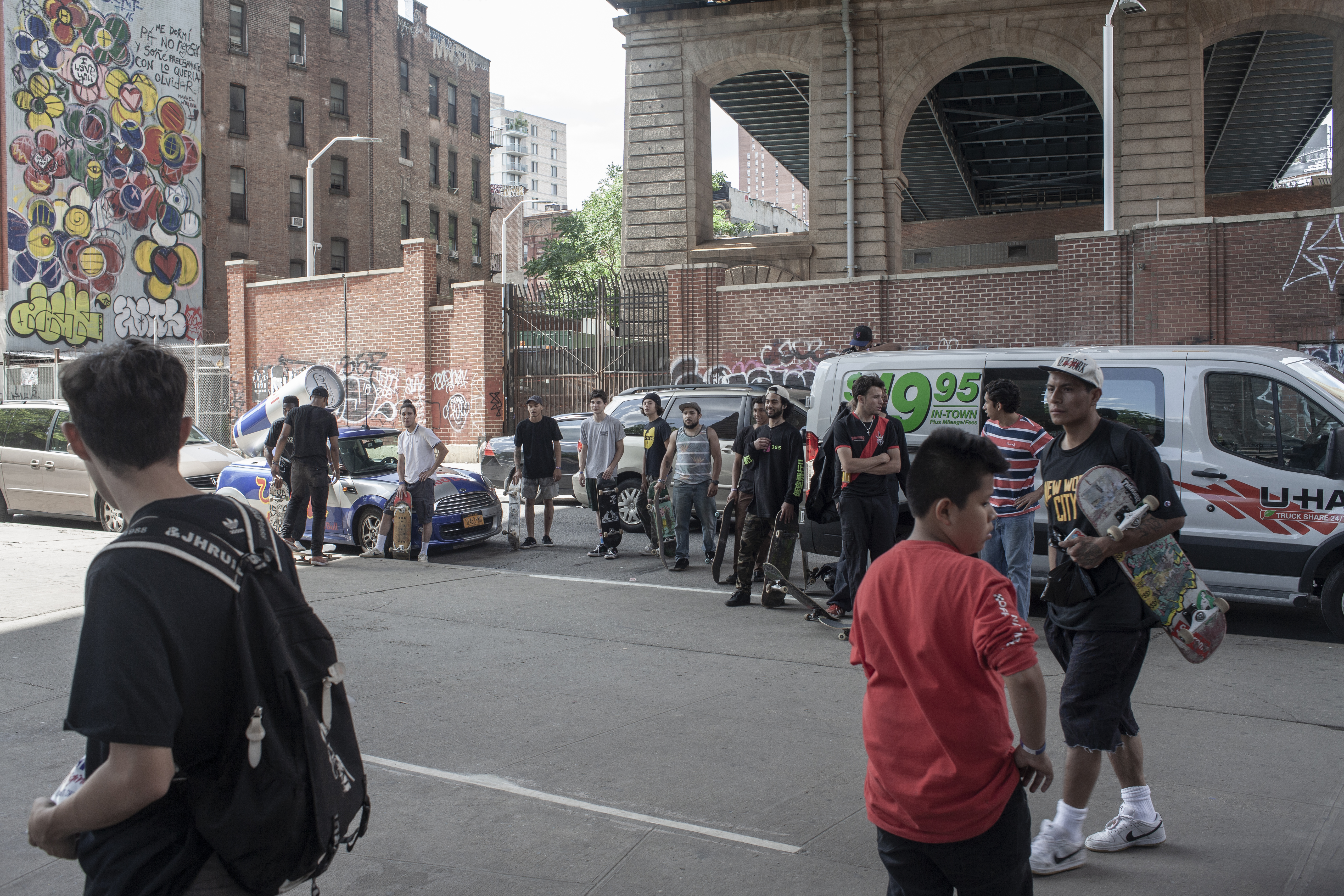 Skaters await their turn during the best trick skate contest at LES skatepark. June 2019